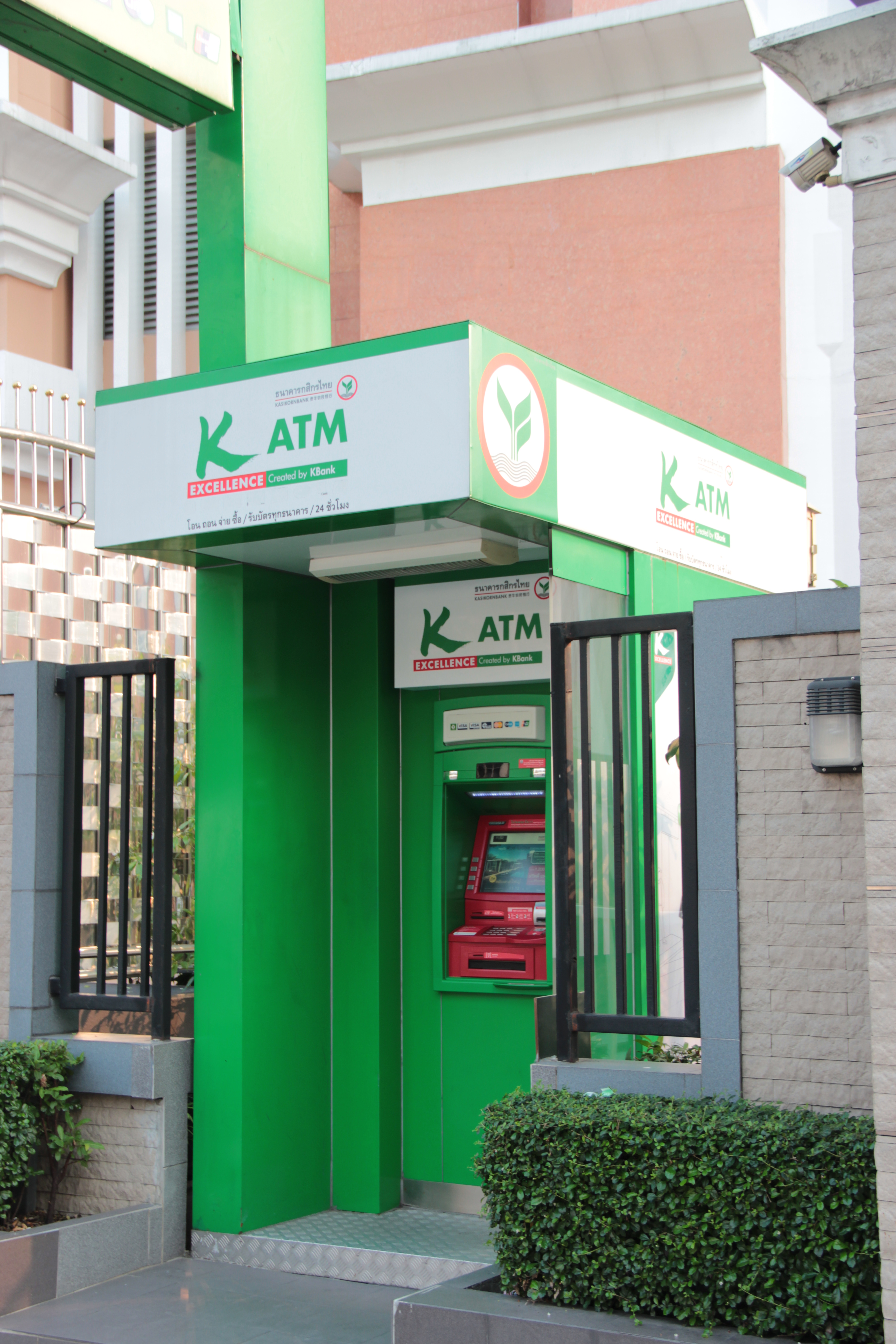 Kasikornbank automatic teller machine. Thanon Petchaburi, Thailand.